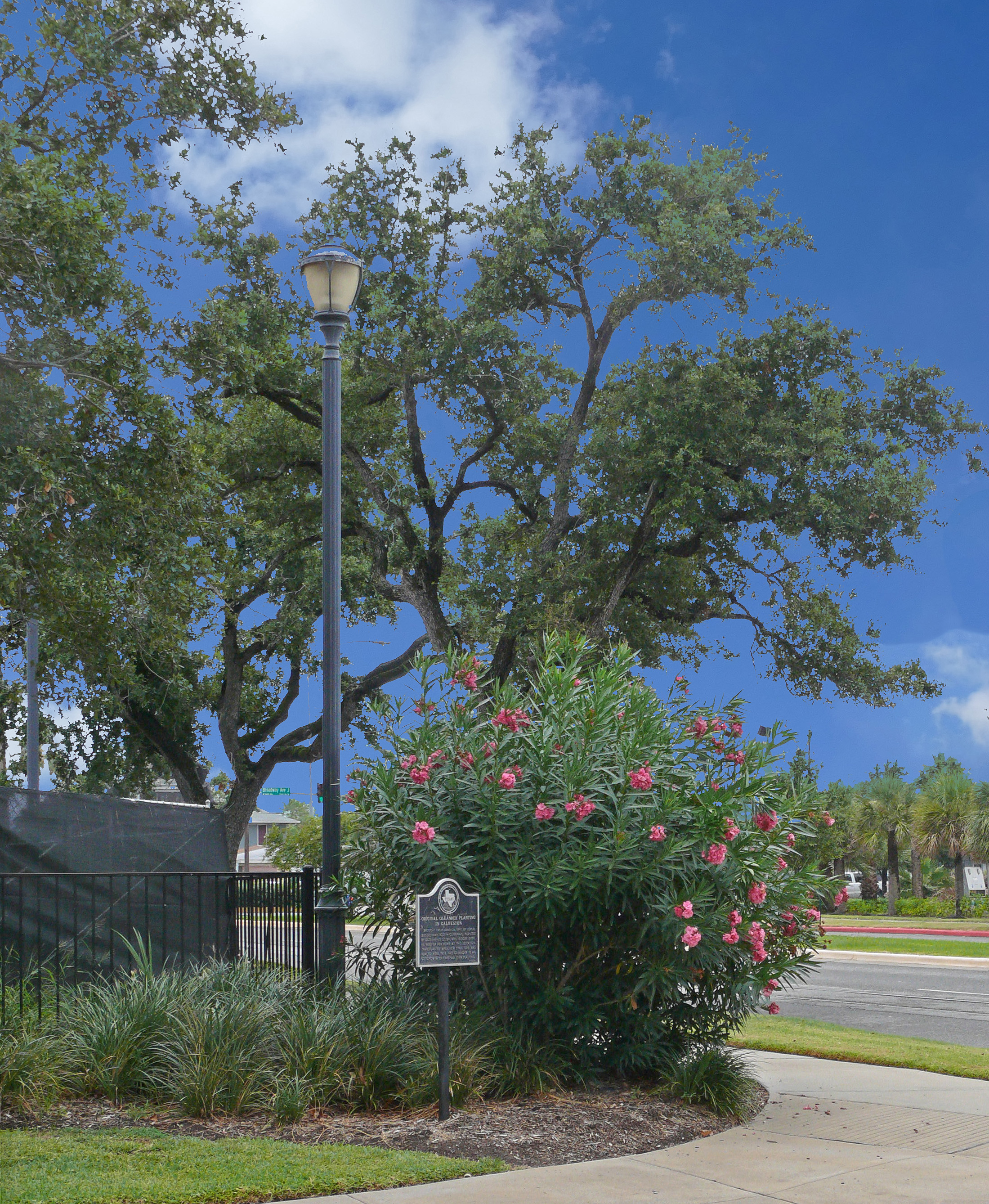 Brought from Jamaica, 1841, by local businessman Joseph Osterman; planted by Osterman's sister, Mrs. Isidore Dyer, in yard of her home at this location. Transplanted when new structure was placed here, 1939, this oleander is an outgrowth of original Dyer planting.